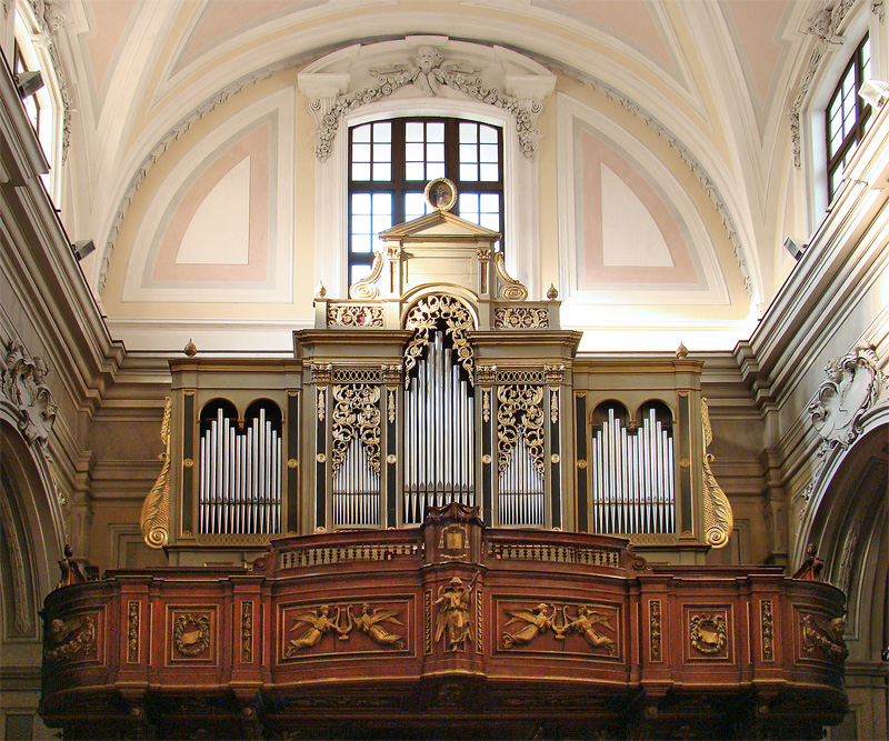 Cathedral of Santa Maria Assunta, Molfetta, Apulia, Italy.